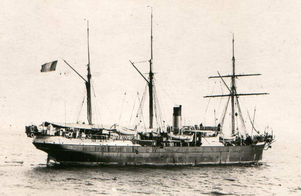 The cable-layer ship Charente. 213.5 ft. long. Sold in 1874 to the 'French PTT'. 1879 laid a cable from Marseille, France to Algiers, Algeria.